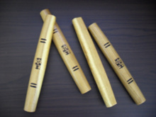 yut sticks